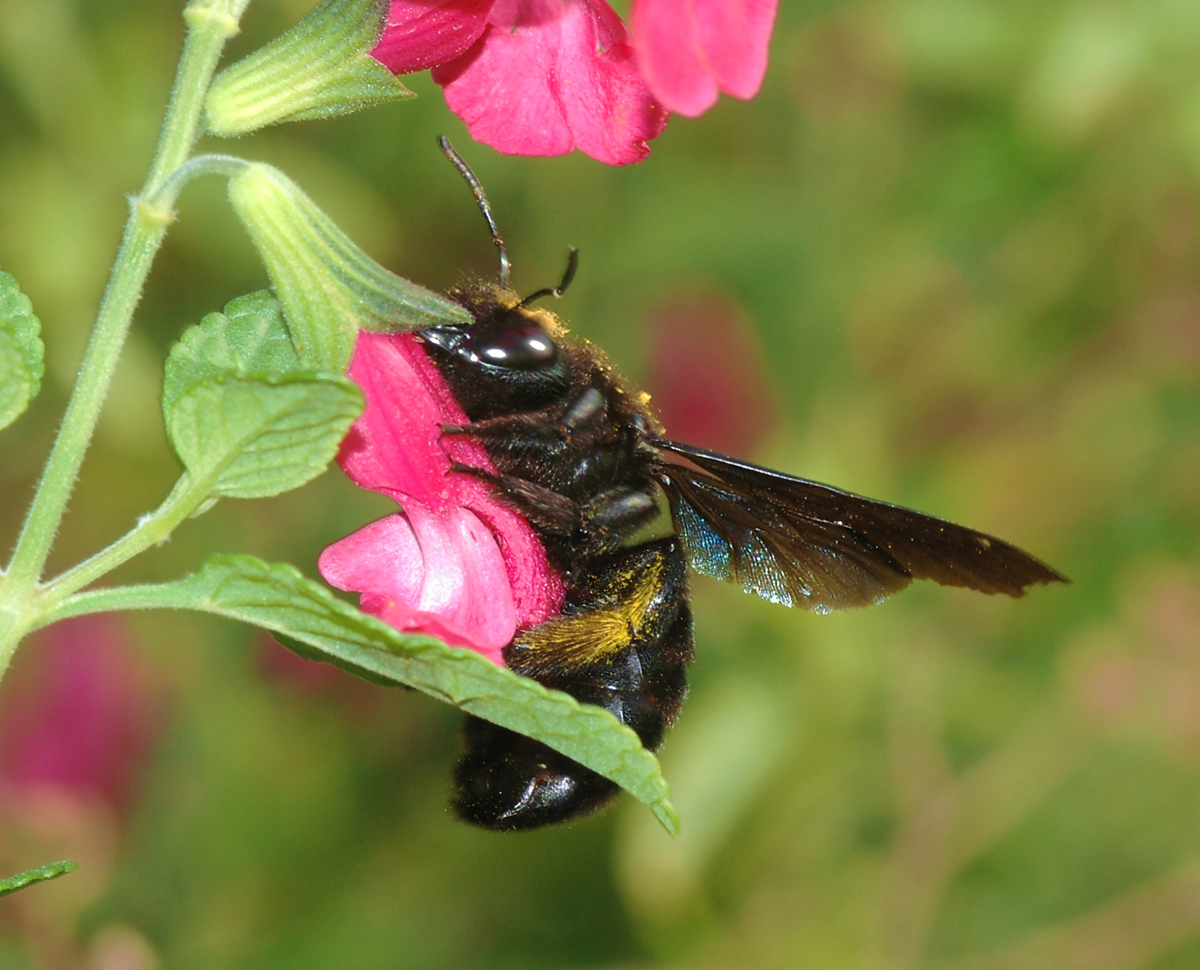 Bee on flower (female Xylocopa violacea)